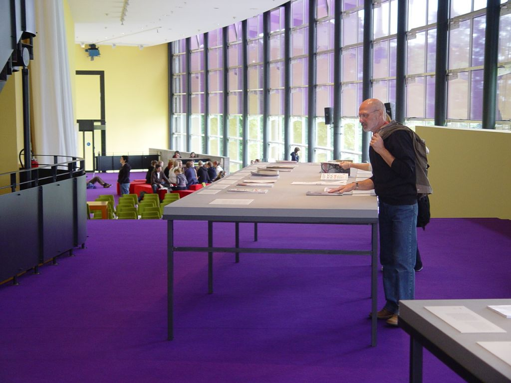 documenta 12